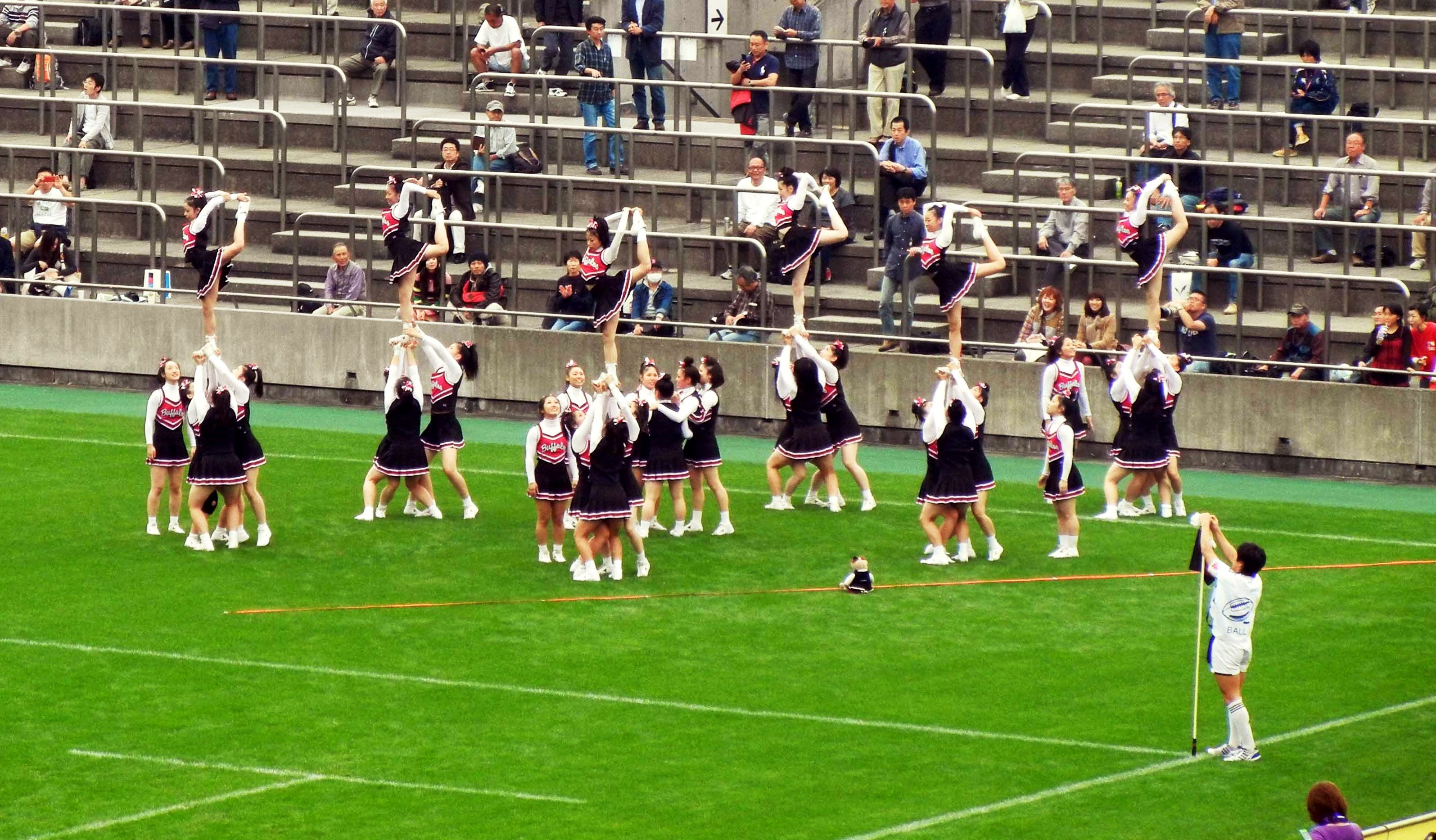 Teikyo University Cheerleading Club BUFFALOS